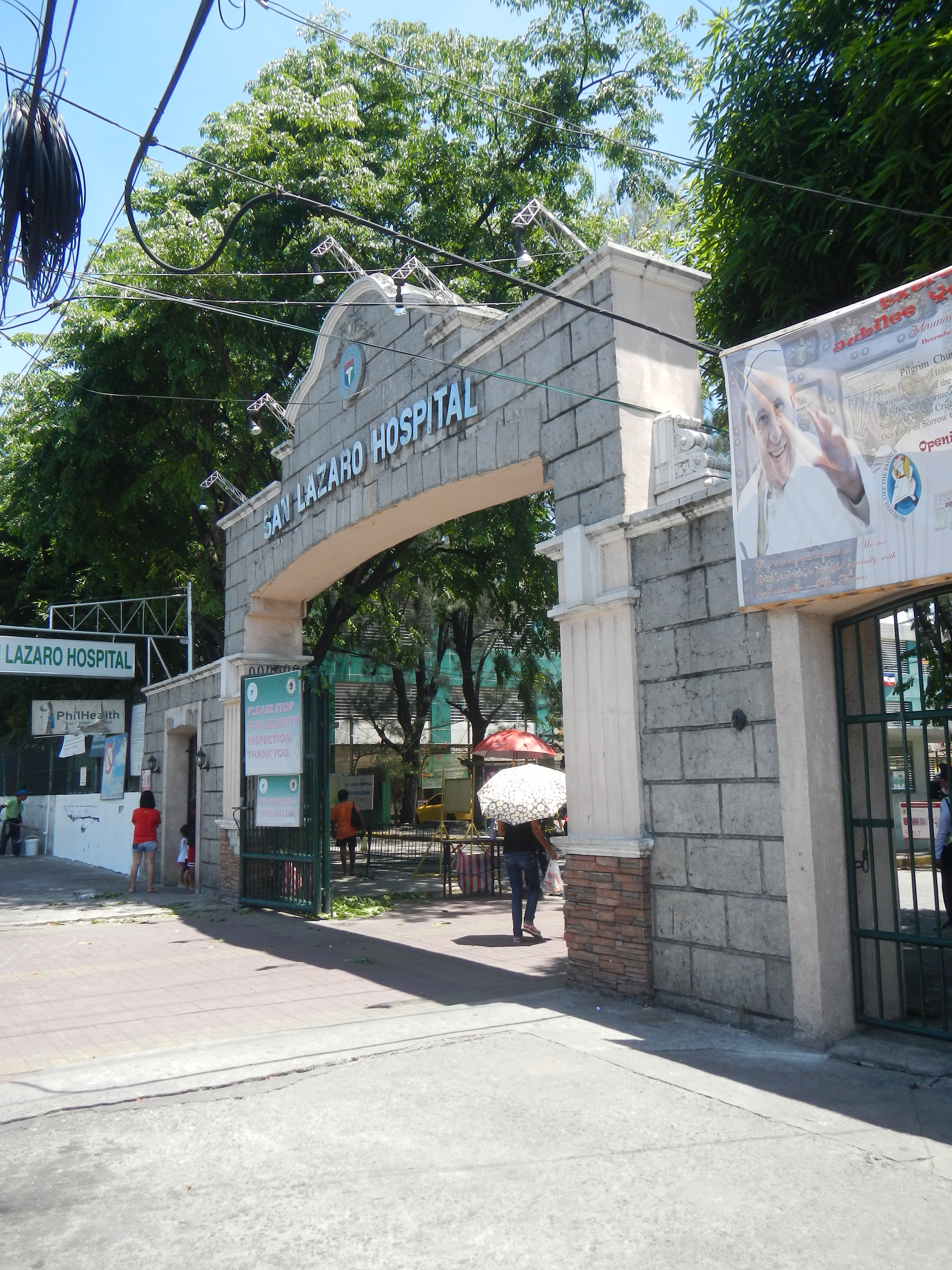 Quiricada Street near Malabon Street and San Lazaro Street, Tayuman Street, Metro Manila Road Network in List of barangays of Metro Manila, Legislative districts of Manila 3rd District, Barangays 323, 324, 325, Zone 32, 331, Zone 33, 337, 338, 339, 340, 341 and 342, Zone 34, District III, Santa Cruz, Manila, Sampaloc, Manila, City of Manila (upon and along Oroquieta Street, P. Guevarra Street, Buildings in Santa Cruz, Manila to and from A. Villarama Avenue, DOH Compound, Department of Health (Philippines), Rizal Avenue, Santa Cruz, Manila, José R. Reyes Memorial Medical Center, 1577 San Lazaro Hospital in the List of Cultural Properties of Santa Cruz 14°36′49″N 120°58′52″E).